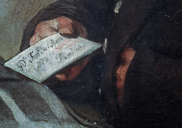 Portrait of Francisco del Mazo